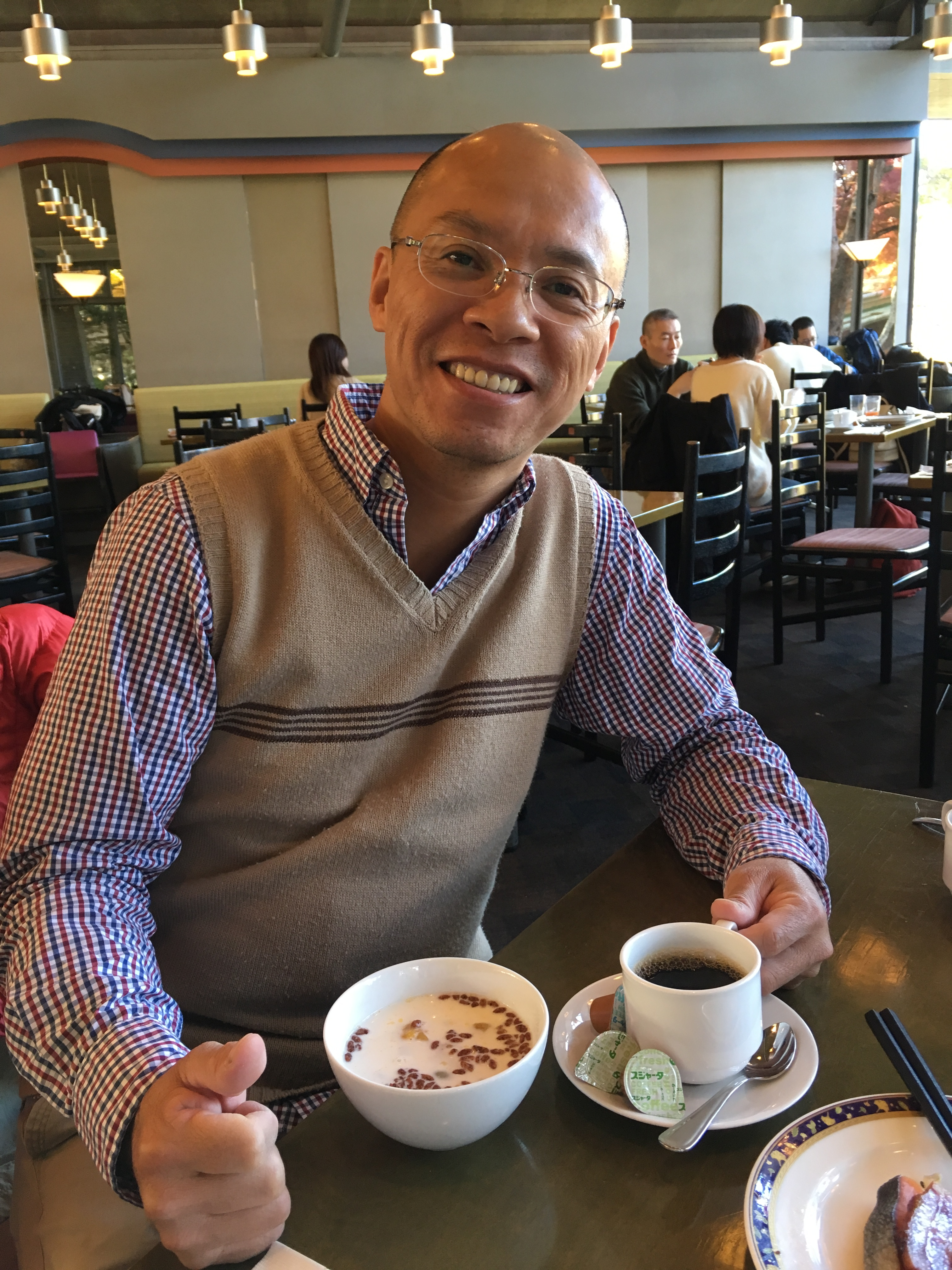 Professor Huang Chung-Yuan 中文（台灣）: 長庚大學資訊工程學系黃崇源教授